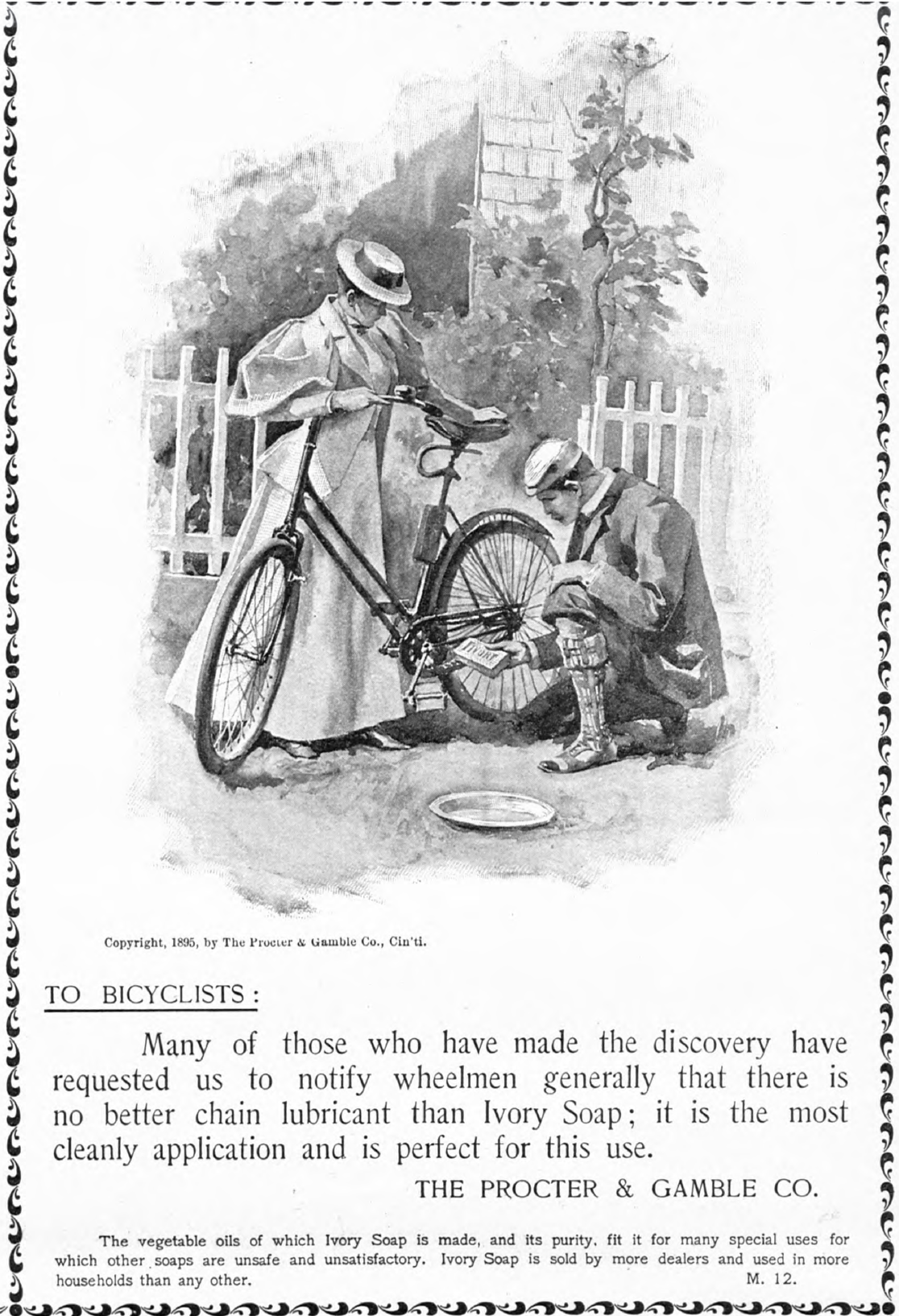 The image was taken from